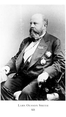 L.O. Smith, the founder of Absolut Renat Brännvin